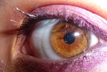 amber / light brown eye